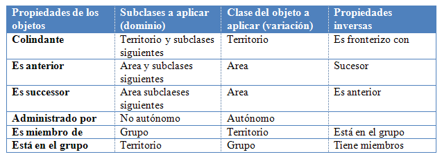 object properties